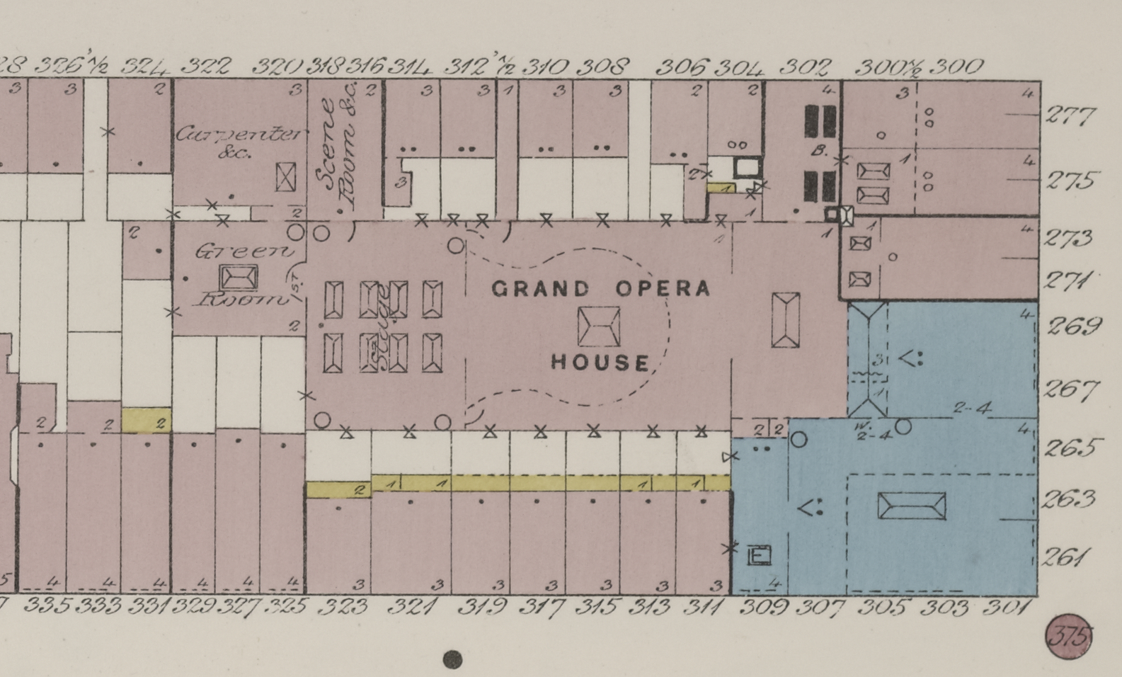 Plate 86 (detail) from: Insurance Maps of the City of New York (Borough of Manhattan) Surveyed and Published by Sanborn–Perris Map Co., Limited. Volume 5. (New York City: 1899). FOR KEY TO MAP SYMBOLS, CLICK HERE.